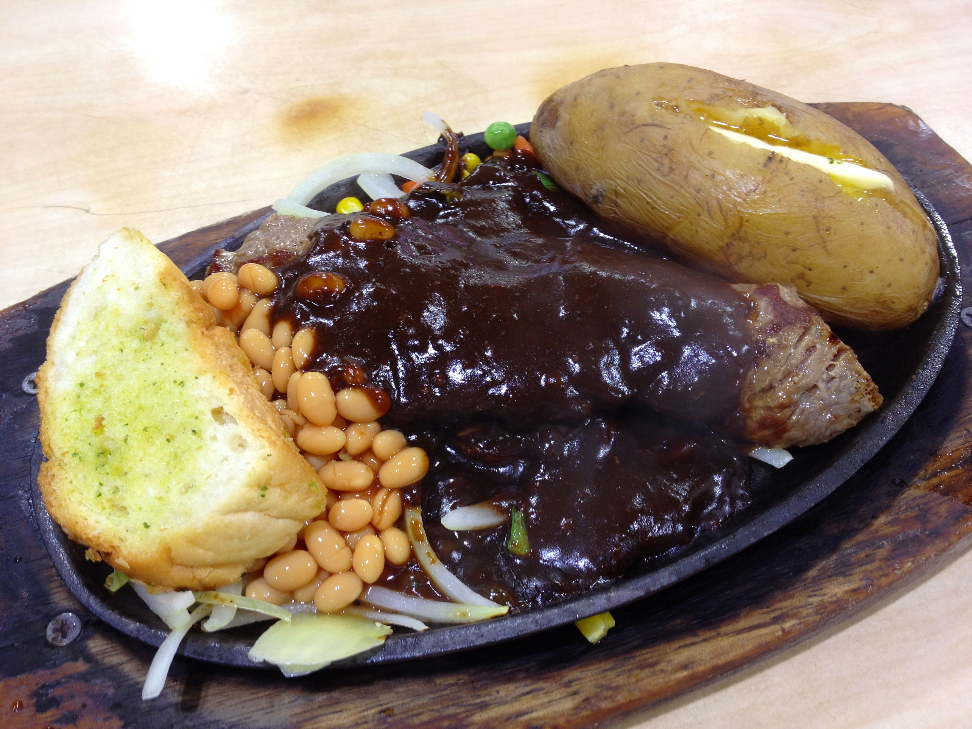 Chinese style mixed grill comprising of lamb chops, chicken chops, beef steak, baked potato, baked beans and garlic toast topped with black pepper sauce.